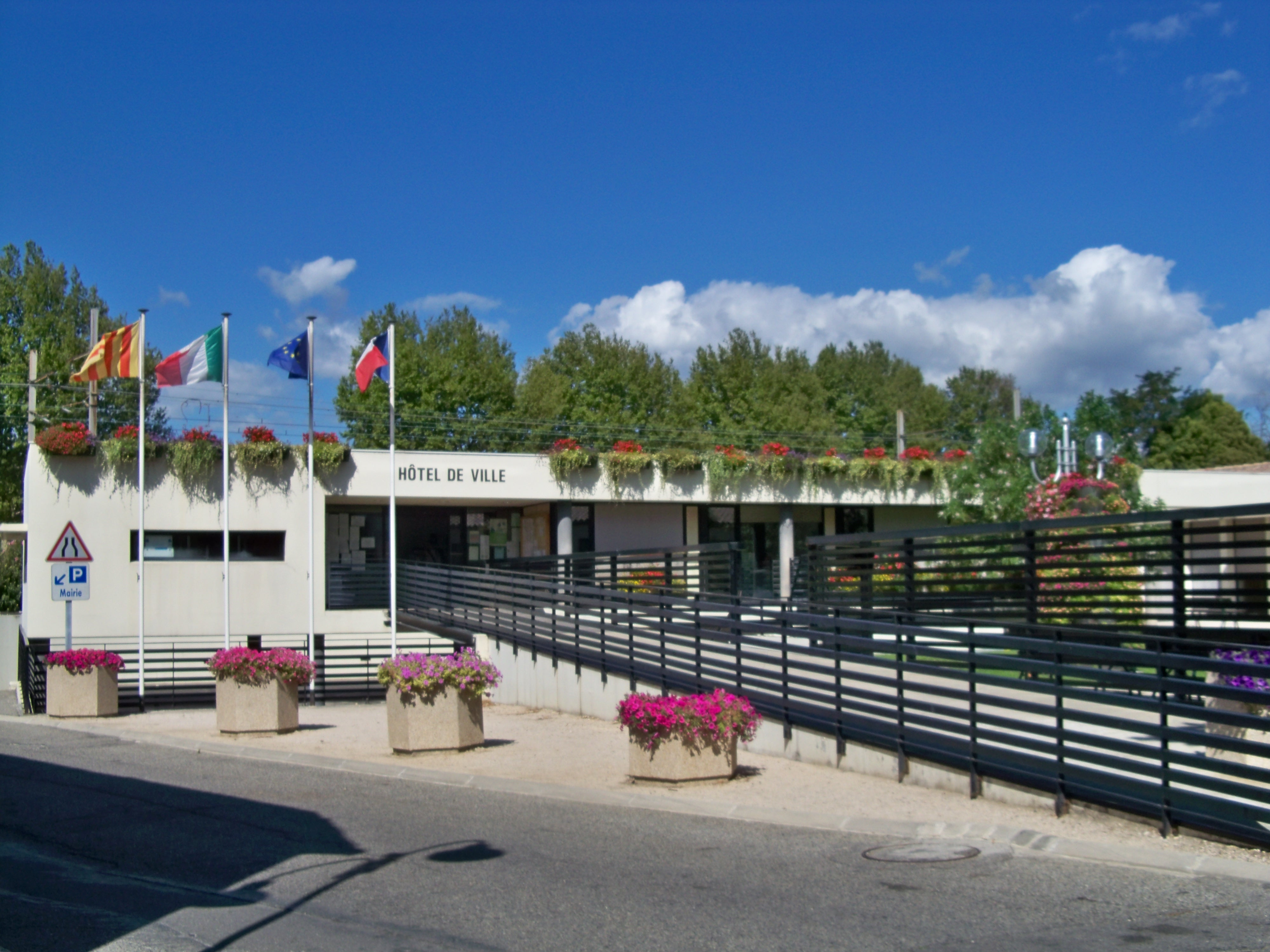 Mondragon's town hall